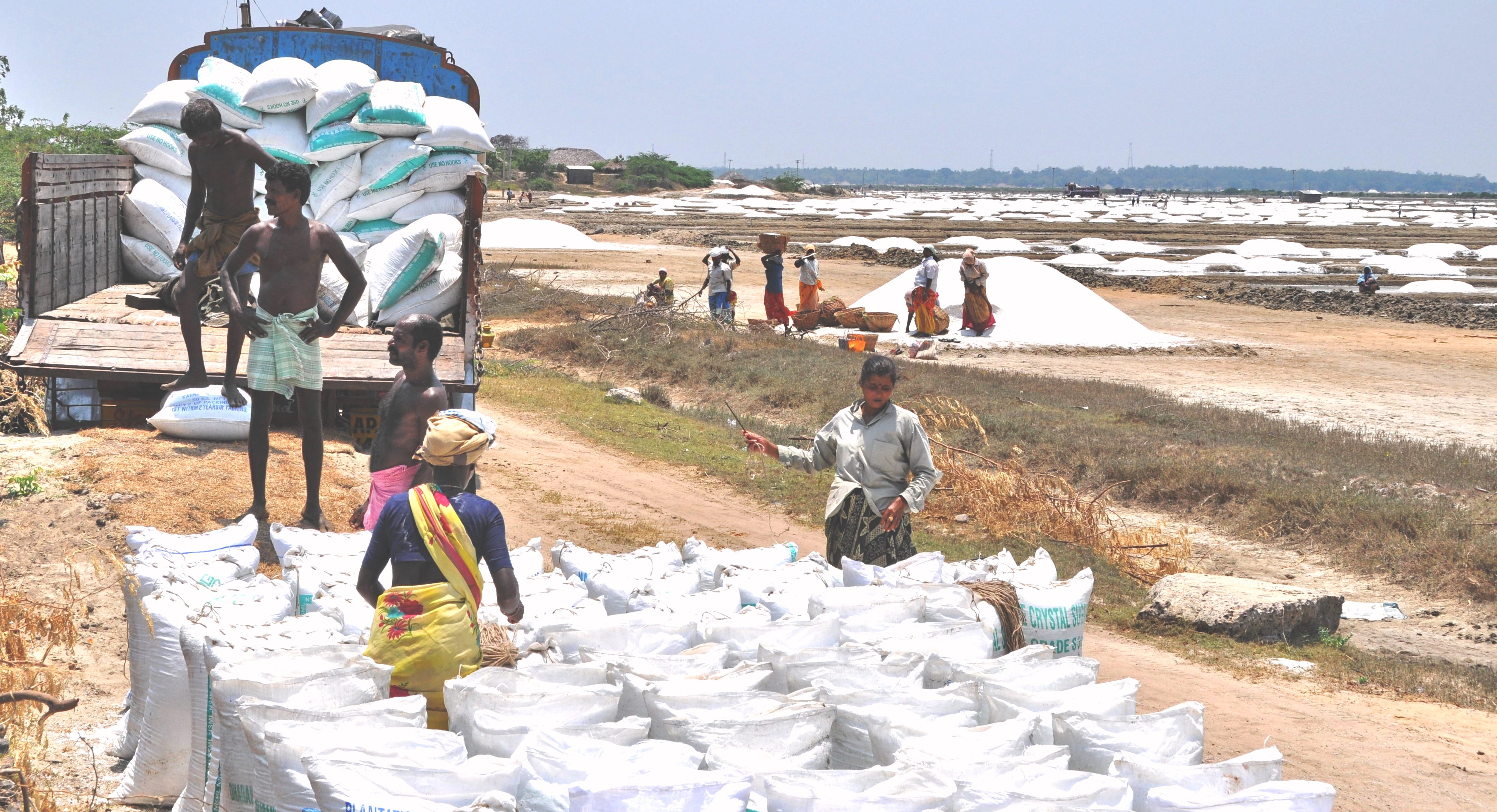 Saltpans Located at Marakkanam, Villupuram District of Tamilnadu, India.